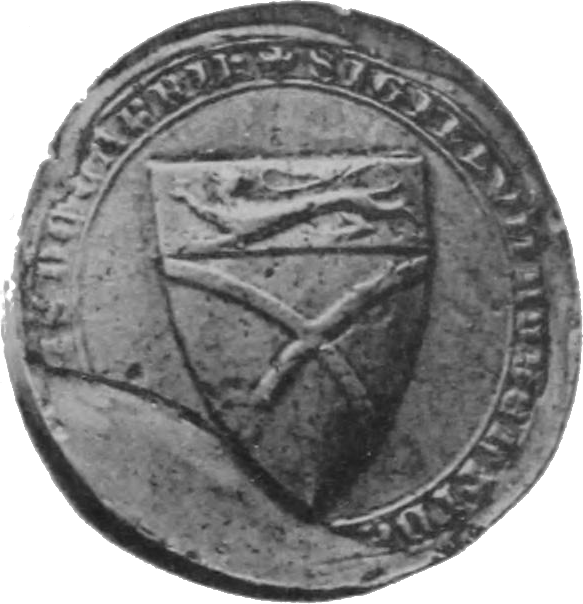 Seal of Robert Bruce VI, Earl of Carrick, 1285.